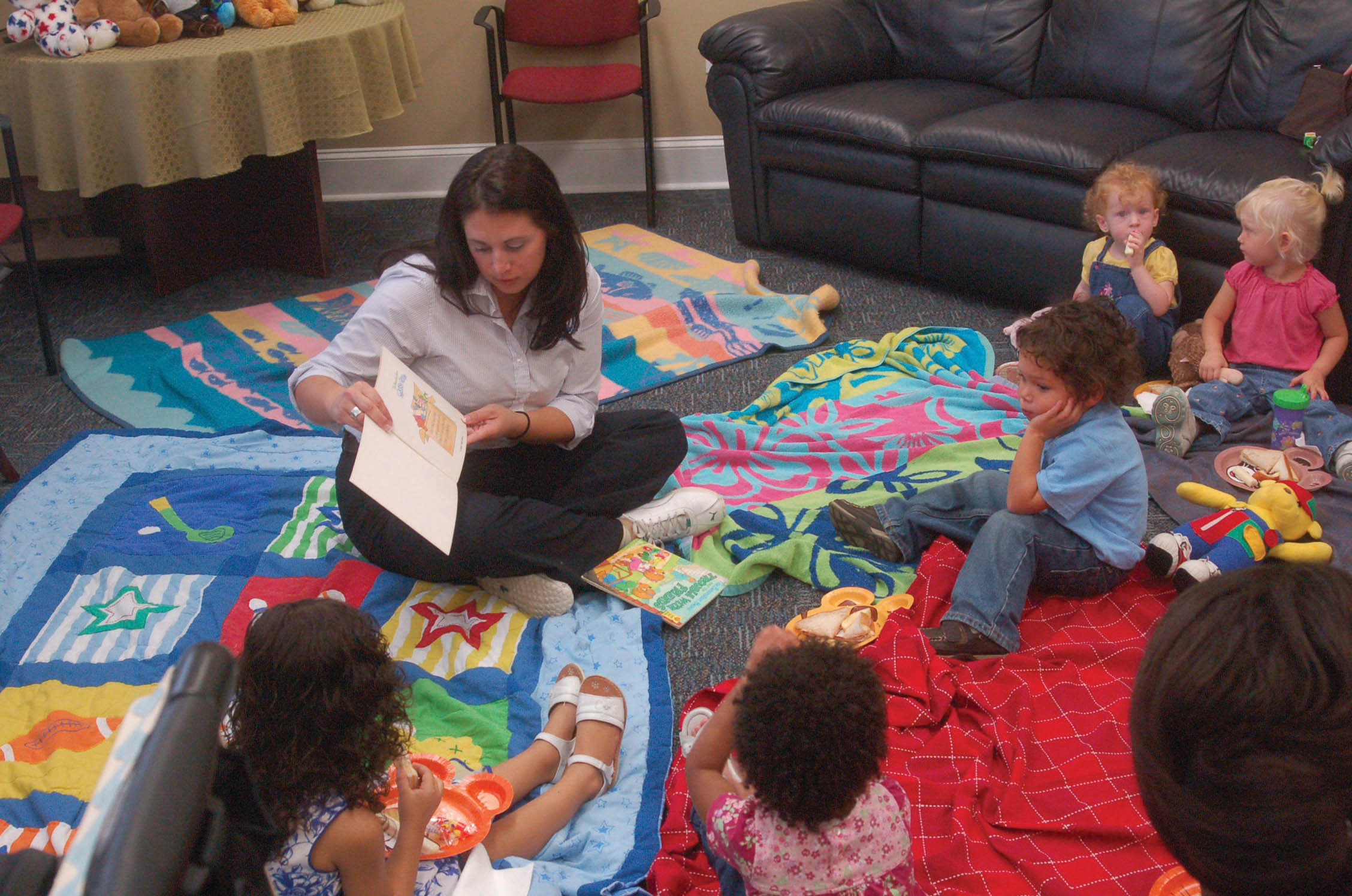 Kelly Barchanowicz reads a story during the Teddy Bear Picnic in the Balfour Beatty Community Center.